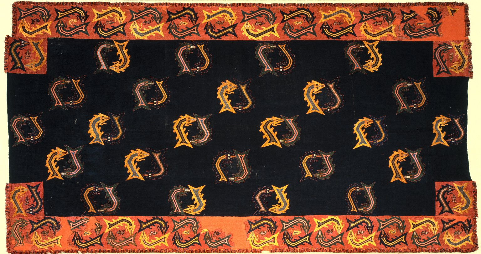 Mantle * Cultures: Nasca; Paracas * Medium: Cotton, camelid fiber * Place Found: South Coast, Paracas Necropolis, Peru * Dates: 0-100 C.E. * Period: Early Intermediate Phase 1 * Dimensions: textile: 118 1/8 x 63 3/4 in. (300 x 162 cm) support board: 132 x 64 in. (335.3 x 162.6 cm) * Collections: Arts of the Americas, Brooklyn Museum